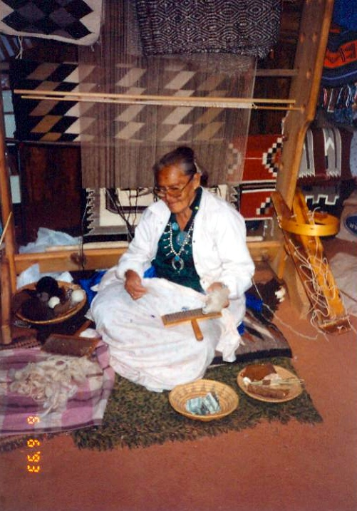 Native American in a Navajo Hogan in the Monument Valley